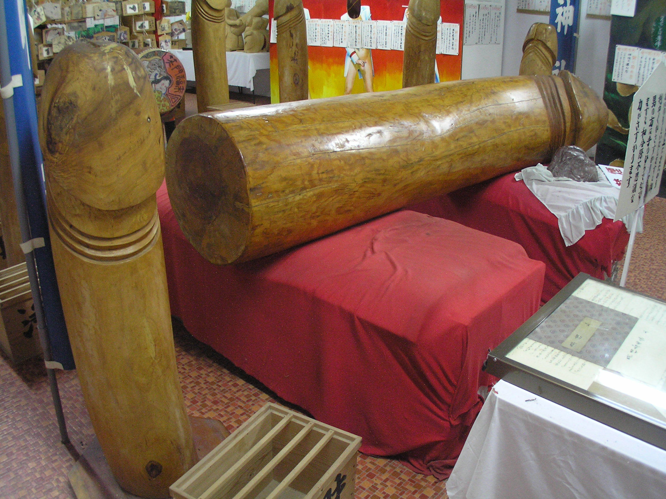 立川水仙郷 ～photo by Autumn Snake 【おぉたむ すねィく探検隊】